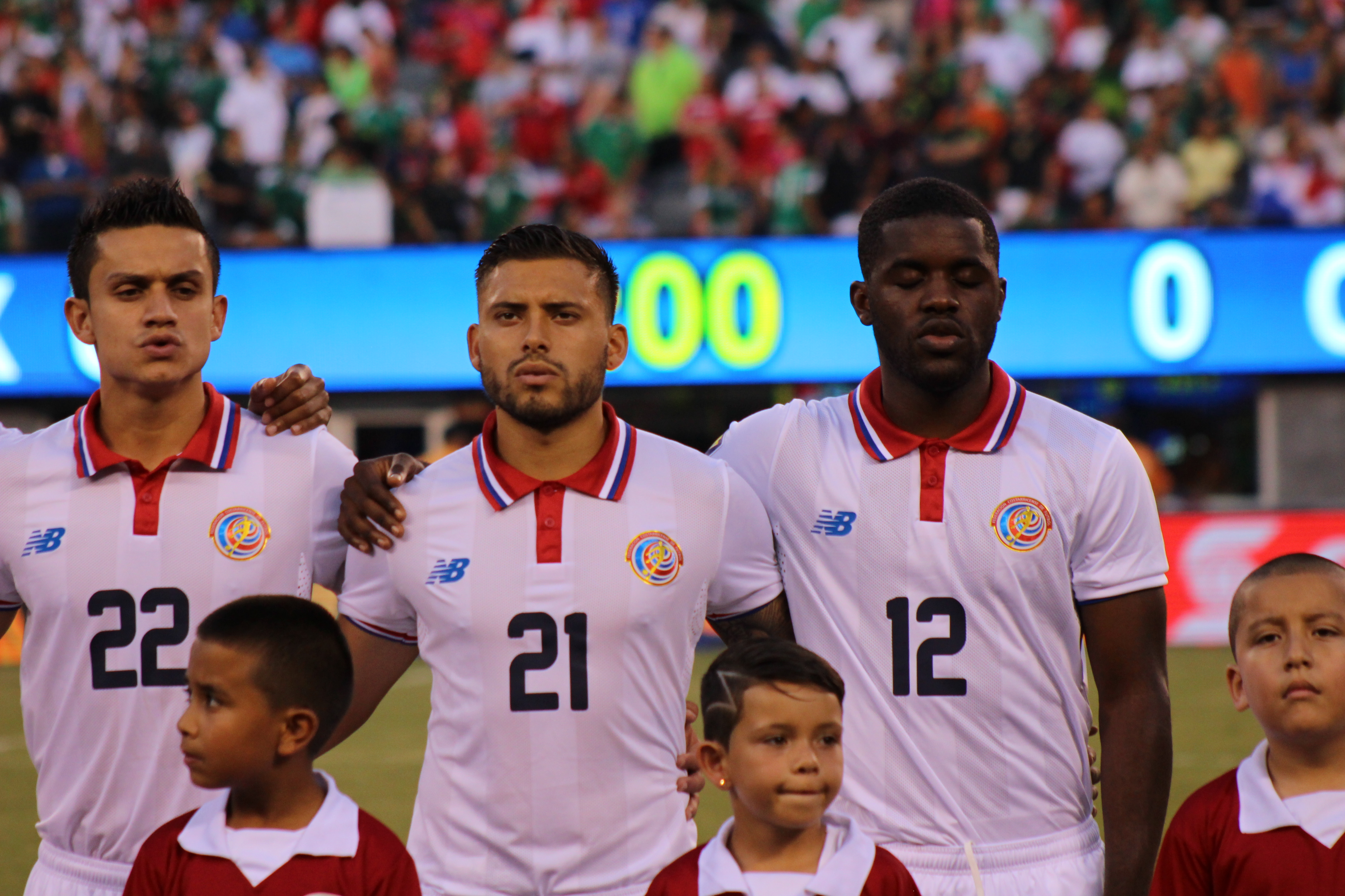 Jose Miguel Cubero, David Ramírez and Joel Campbell.